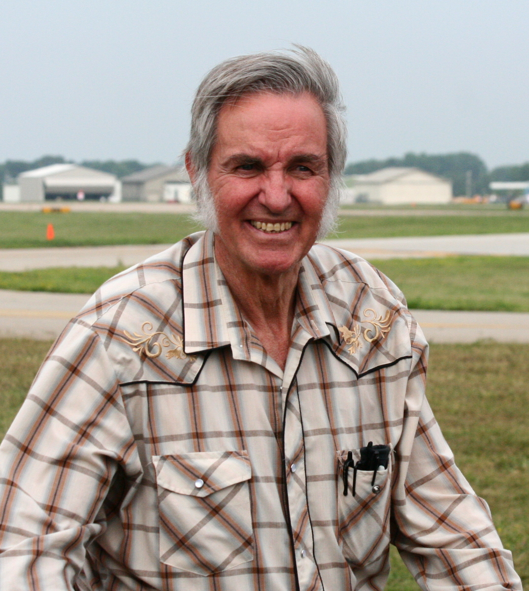 Burt Rutan at the 2011 EAA Airventure fly-in in Oshkosh, Wisconsin.